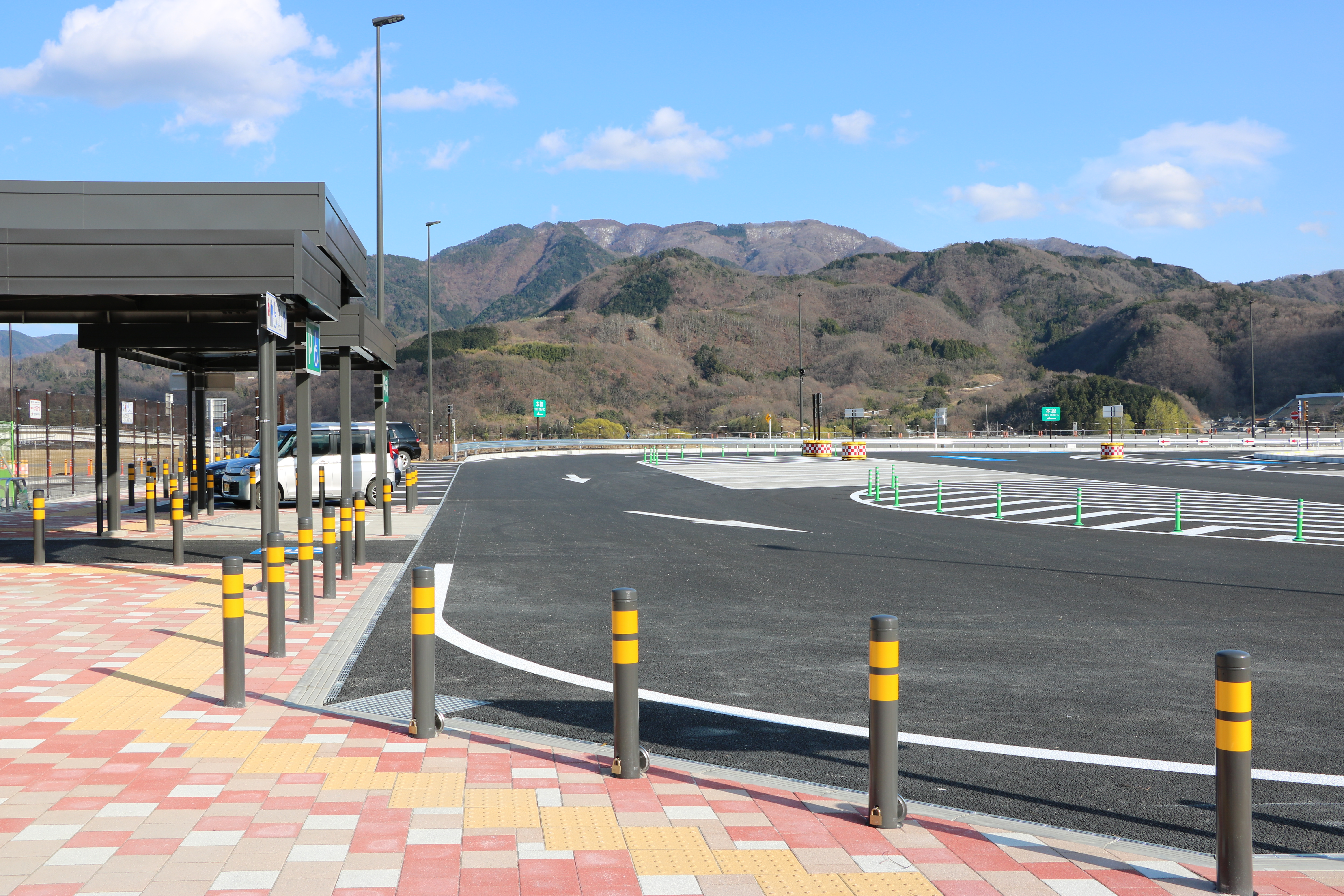 Chubu Odan Expressway Masuho Parking Area Futaba direction.